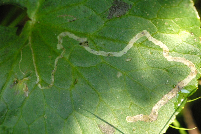 Phytomyza calthophila from Commanster, Belgian High Ardennes .